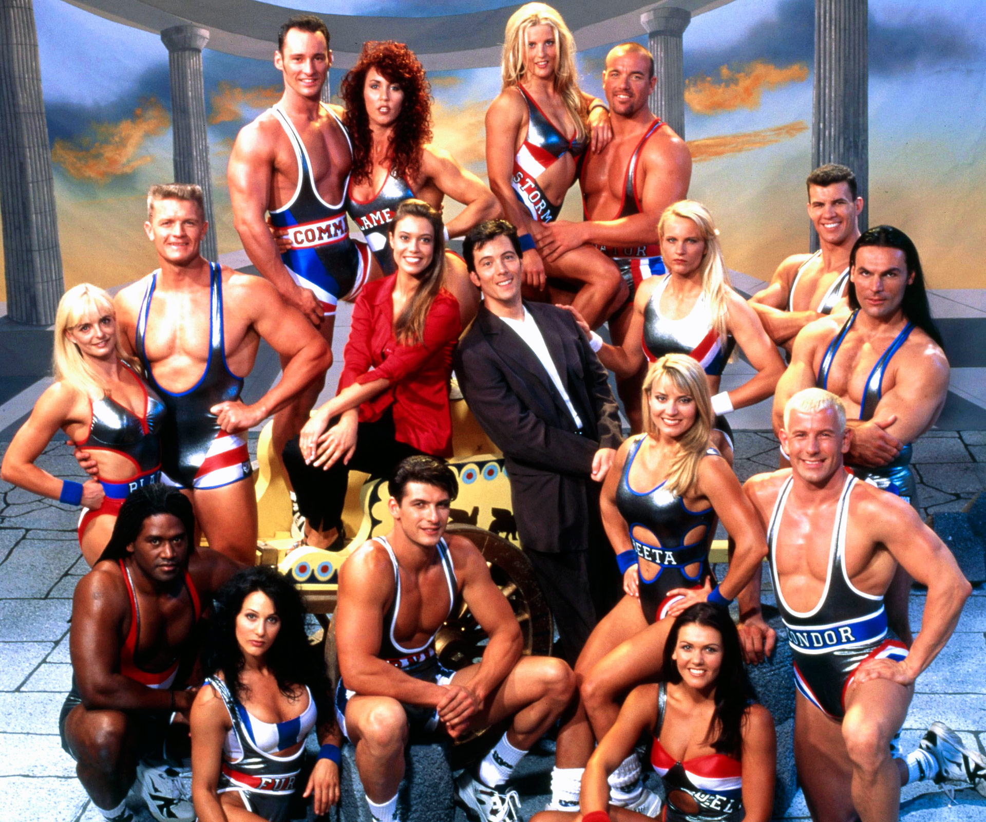 Promo from series 3